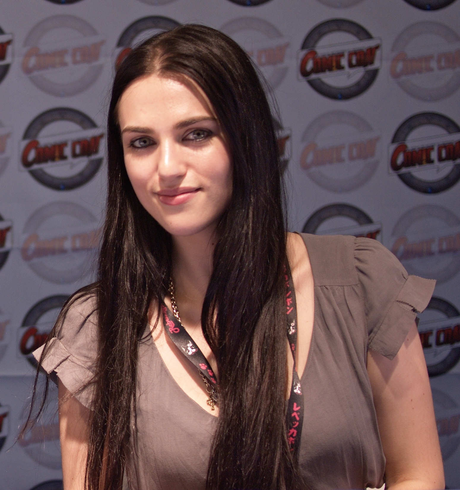 Japan Expo Festival, 11th impact